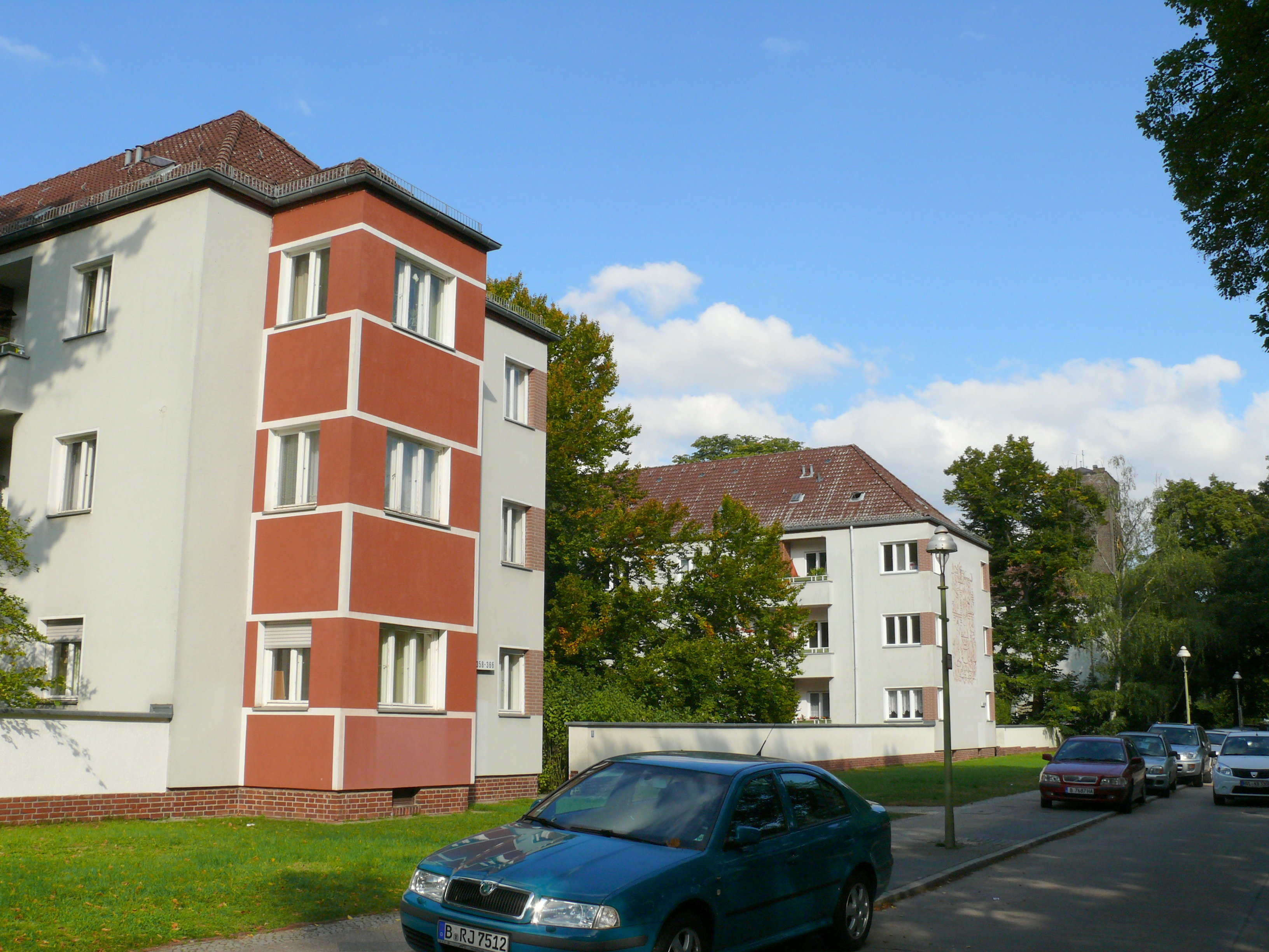 Siemensstadt Schuckertdamm